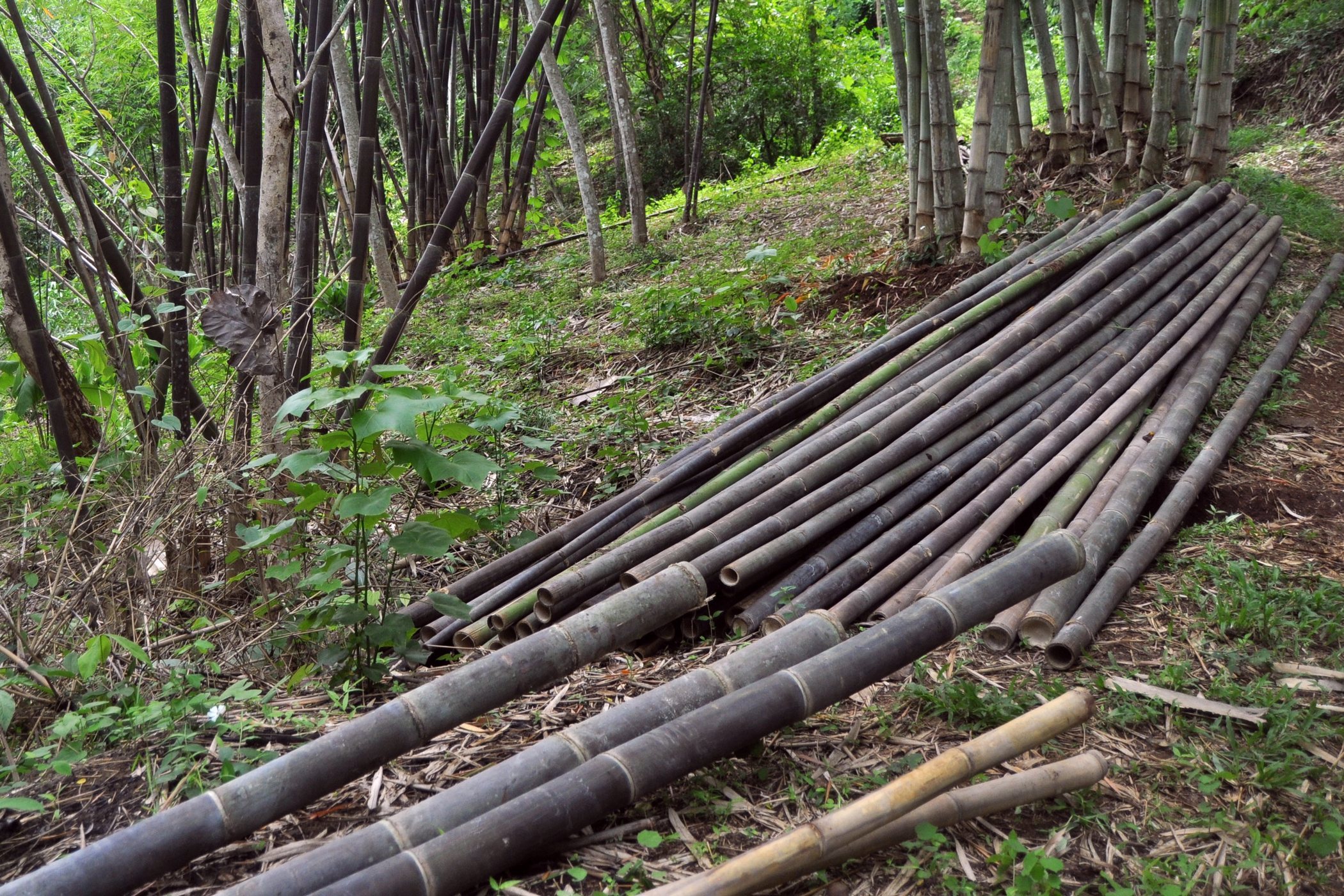 Black bamboo (Gigantochloa atroviolacea); newly harvest. From Kuningan, West Java, Indonesia.